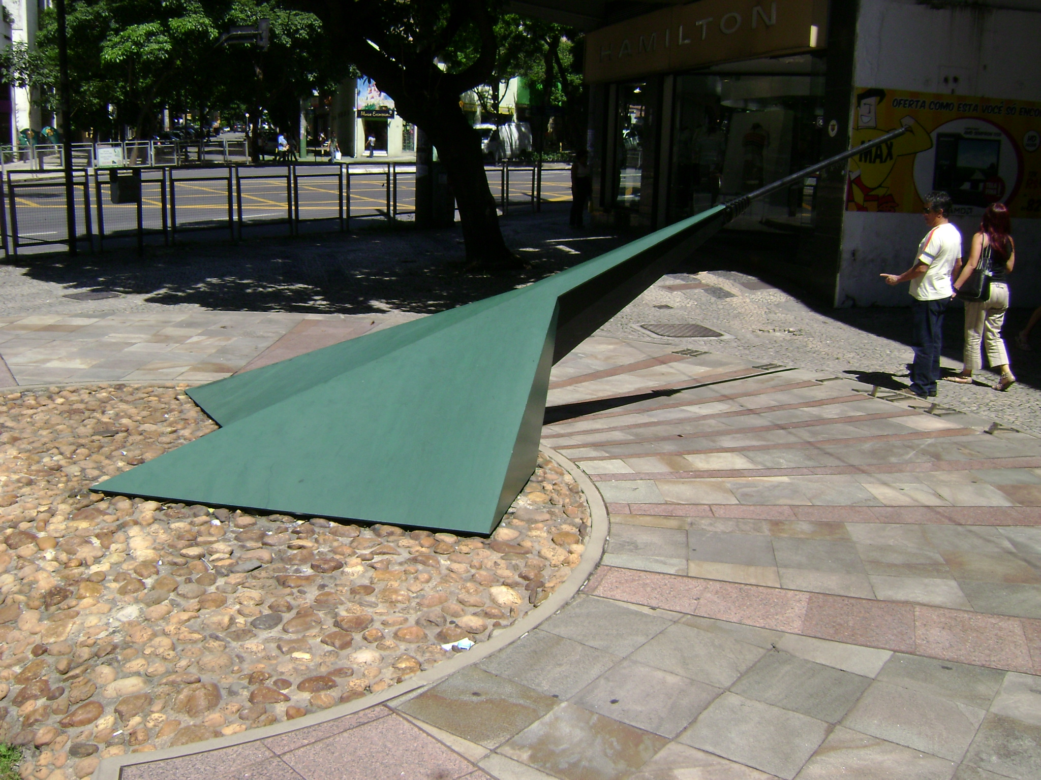 Relógio de Sol na Savassi, Belo Horizonte